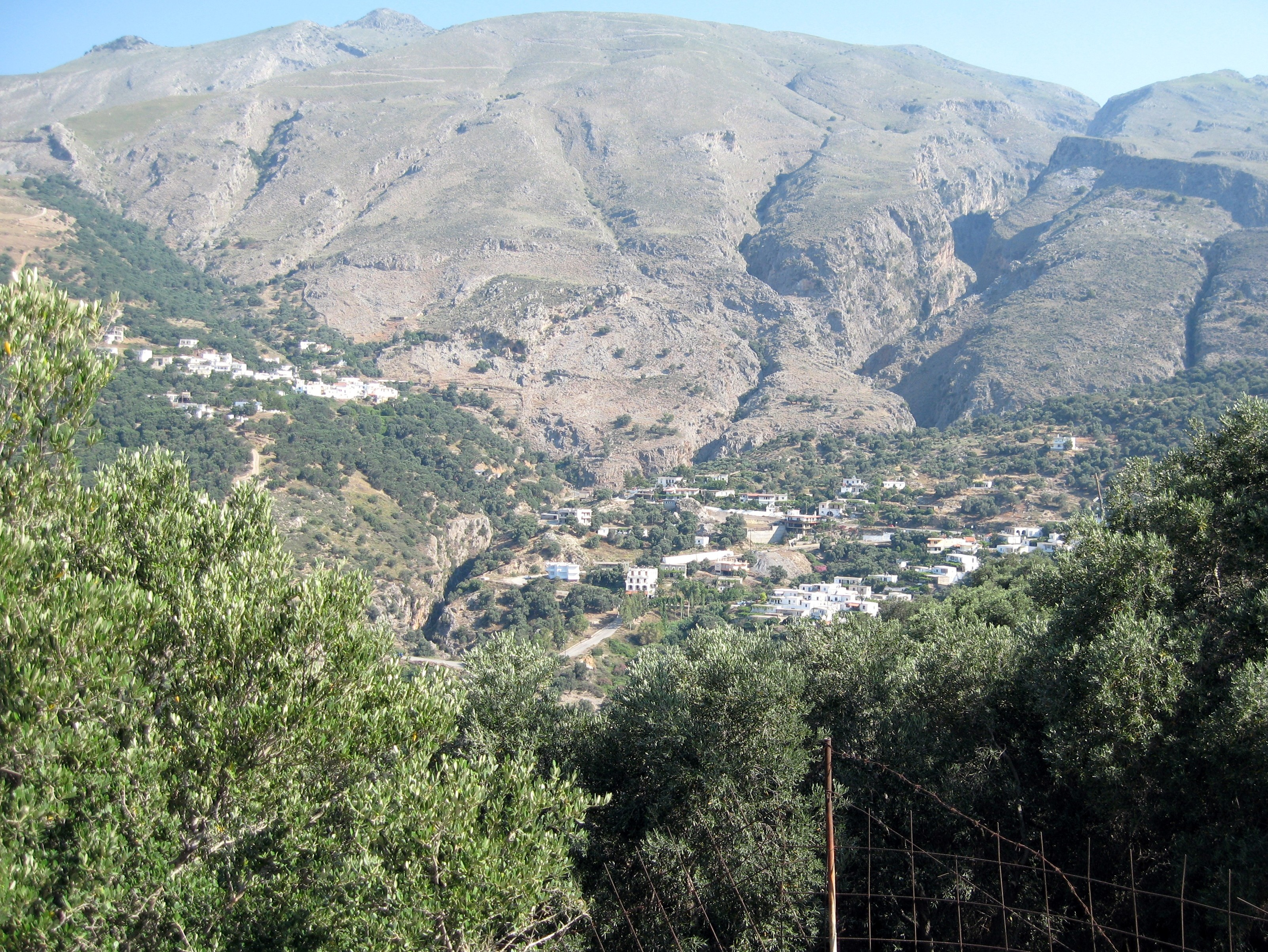 Rodakino, Finikas, Nomos Rethymno, Crete, Greece